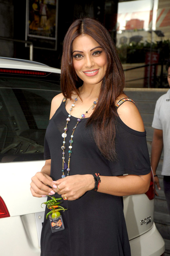 Bipasha Basu at a promtional event for the 2012 film, "Raaz 3D" in September 2012